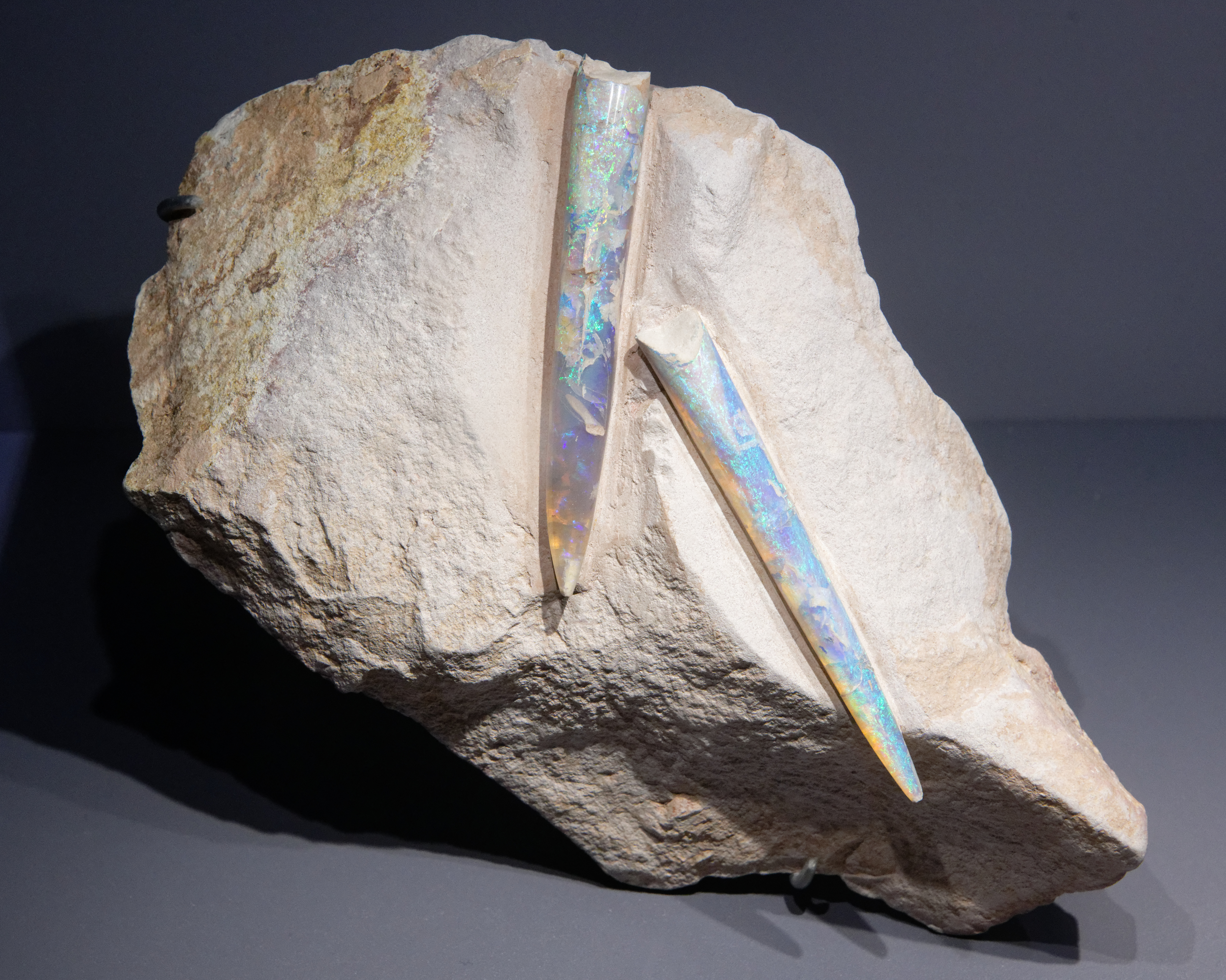 Opal fossilized belemnoidea from Coober Pedy, South Australia, Australia. Gallery of Mineralogy and Geology of the French National Museum of Natural History in Paris.